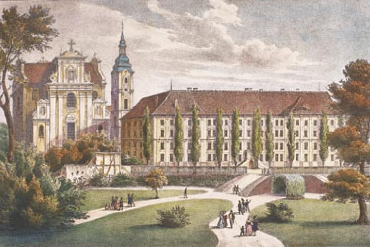 Poznań, Post-jesuit complex of church and college.